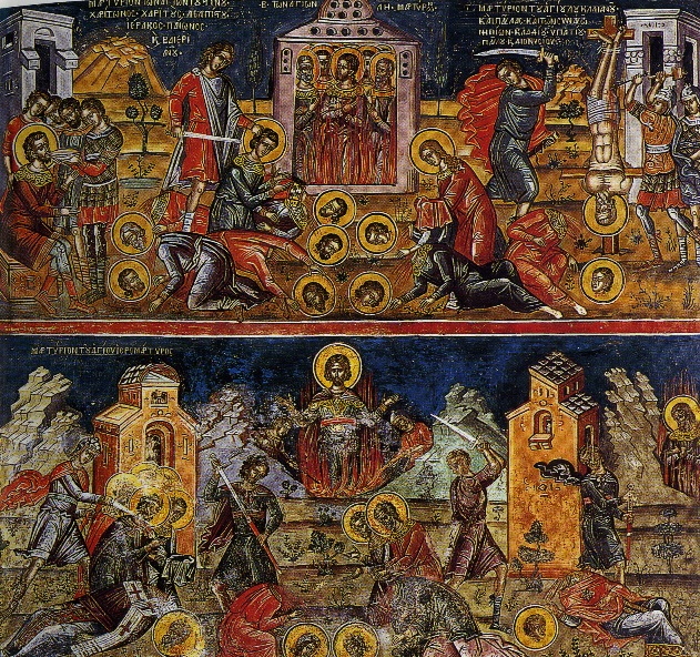 Rousanu